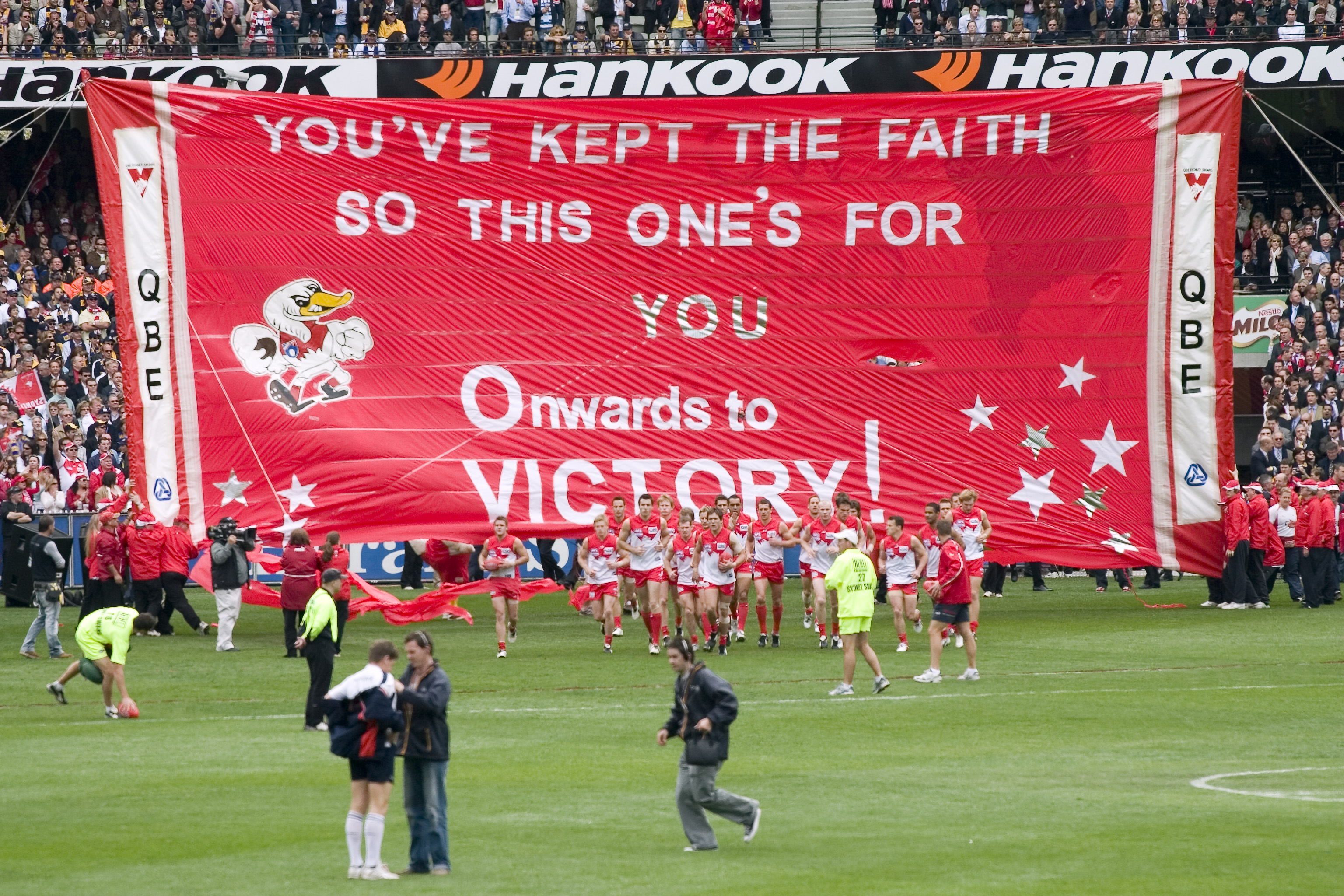 Sydney break through their banner.